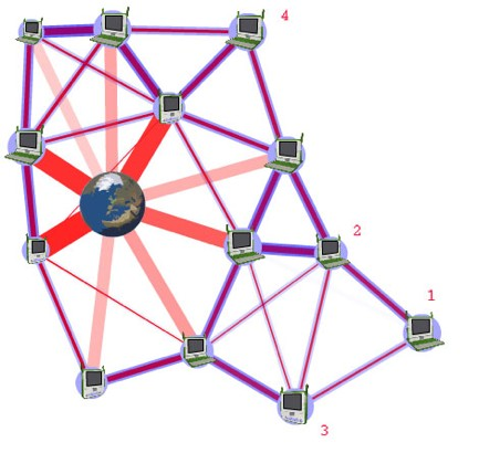 OLPC: XO internet access